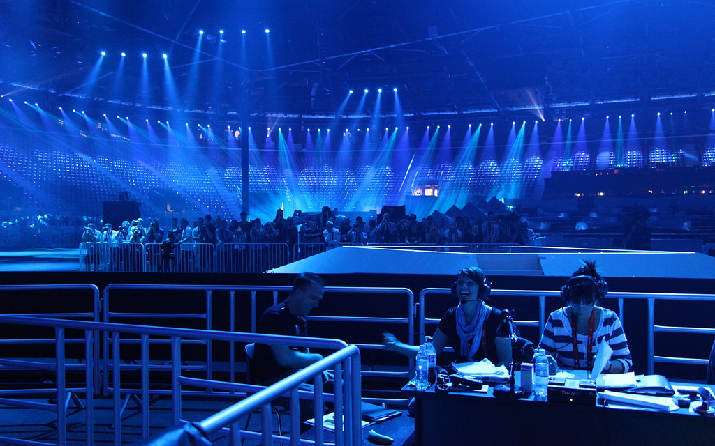 Even though rehearsal was early in the morning lots of people from press and the media attended